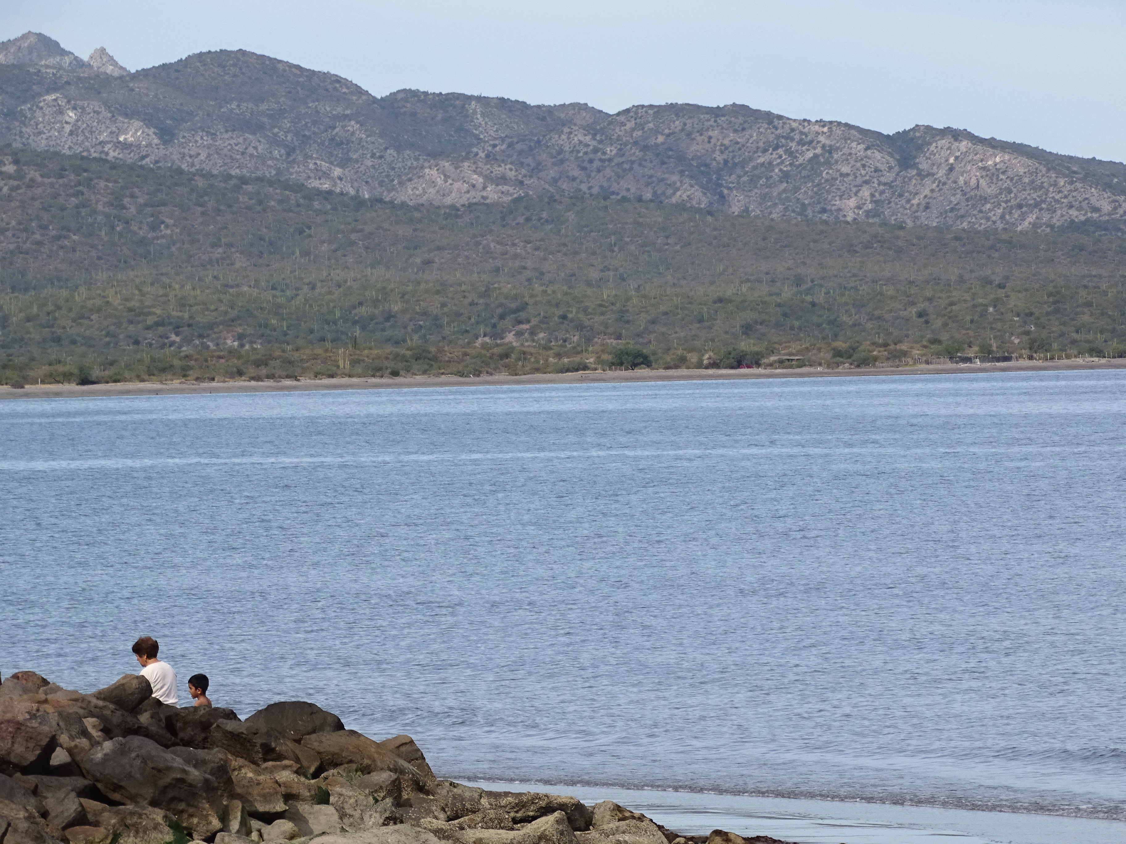 Along the Malecon - Loreto - Baja California Sur - Mexico - 01